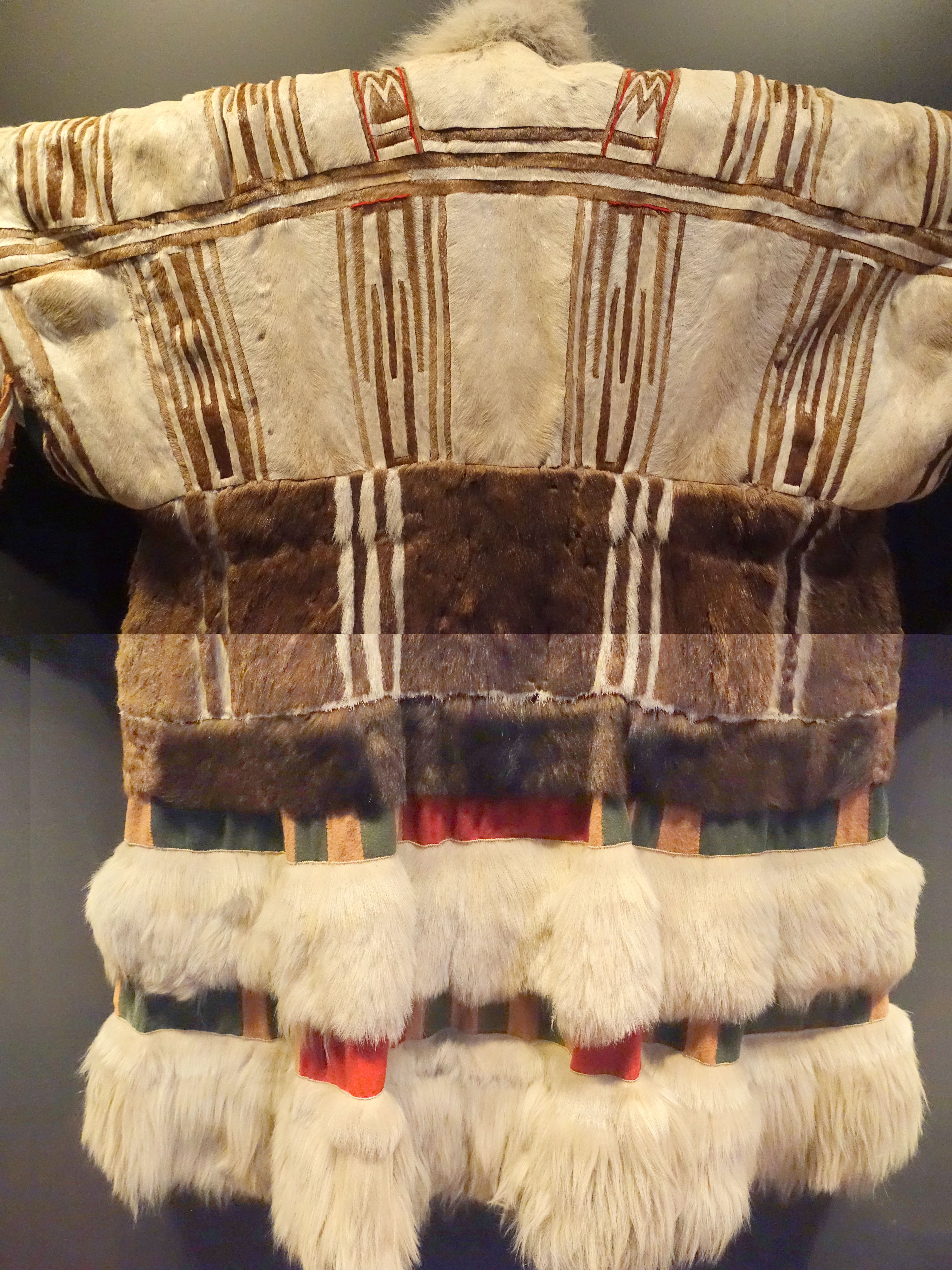 Two photographs joined to one. Exhibit in the Etnografiska museet, Stockholm, Sweden. This work is old enough so that it is in the public domain.